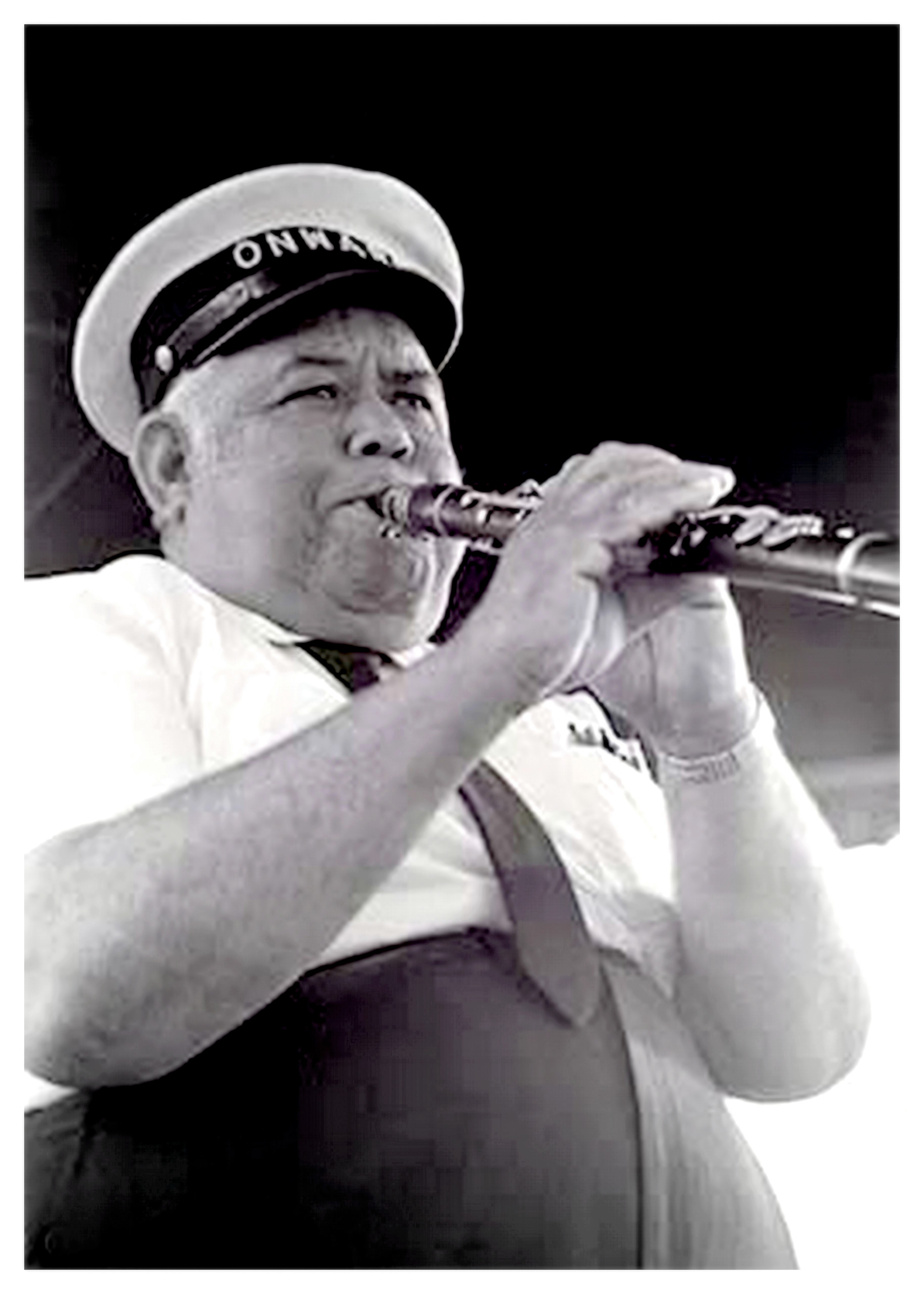 New Orleans Jazz Clarinetist and Bandleader Lous Cottrell (1911-1978) in band cap for the Onward Brass Band.